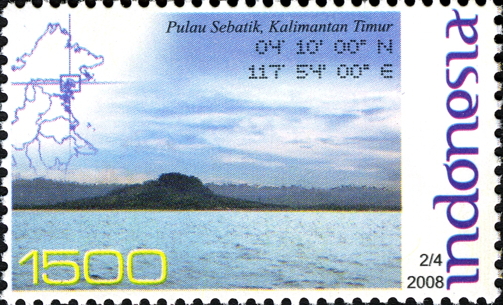 Stamps of Indonesia